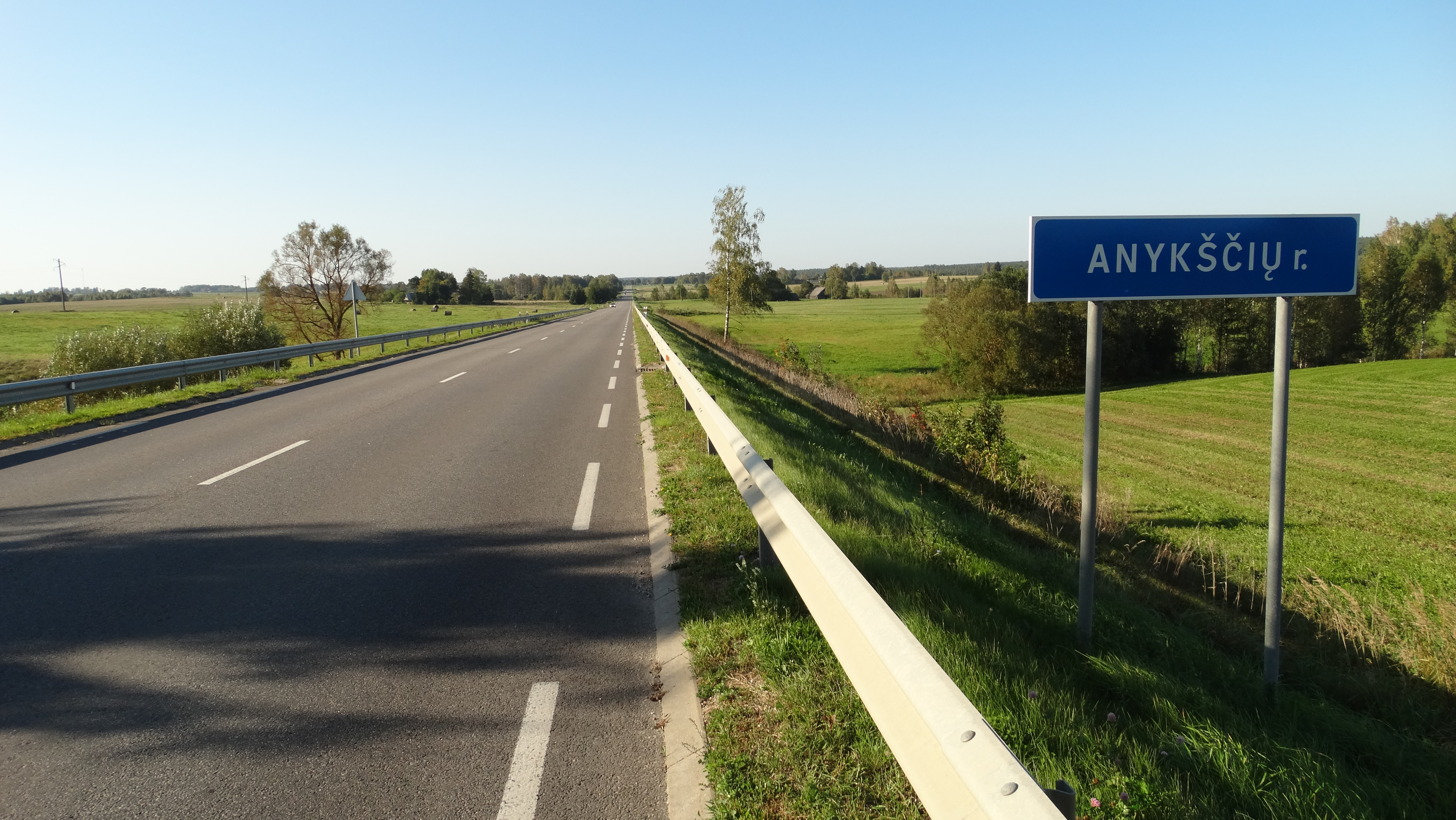 Regional road 118, Anykščiai district, Lithuania